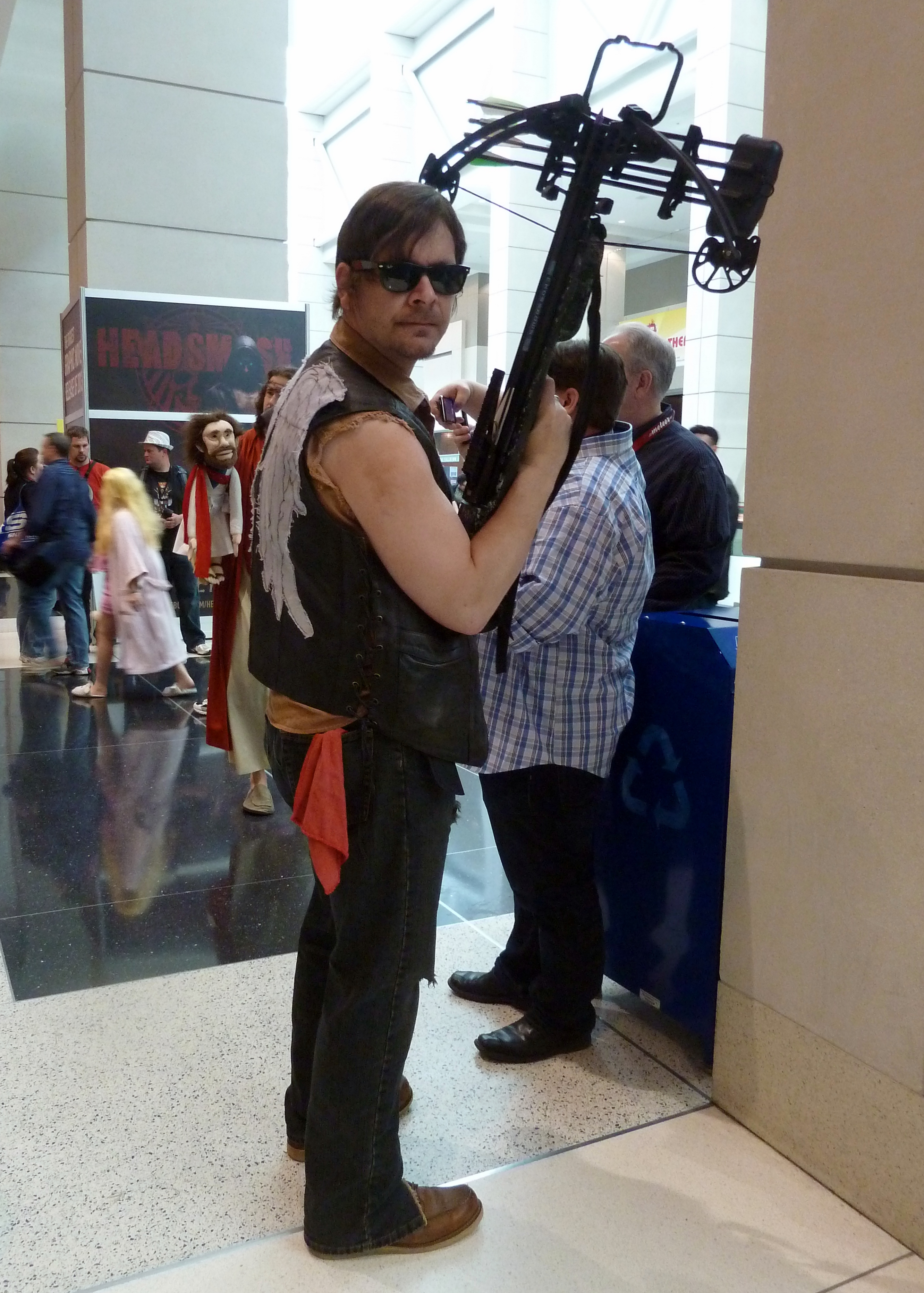 Daryl Dixon of Walking Dead Cosplay at the 2013 Chicago Comic & Entertainment Expo (C2E2).